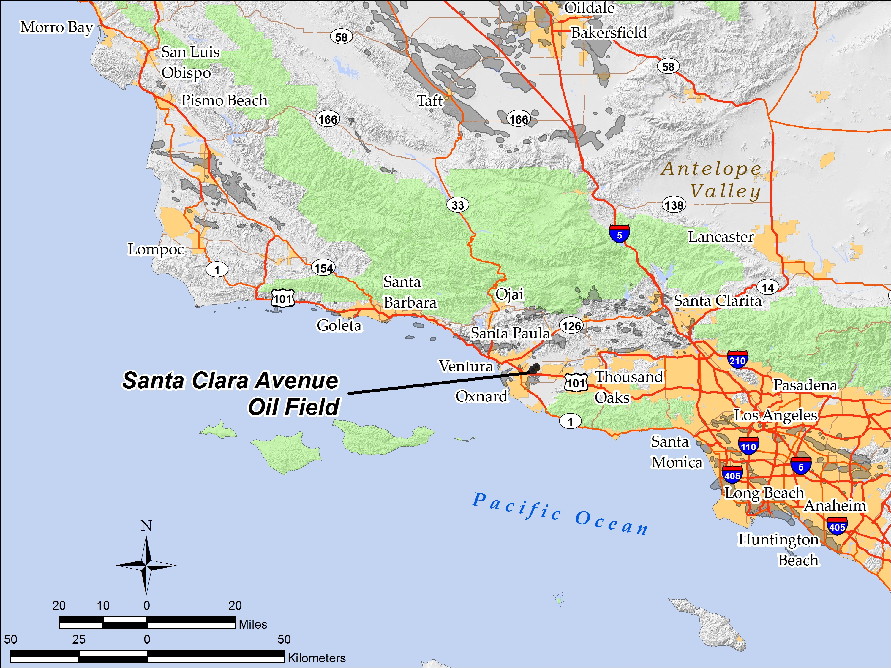 Location of Santa Clara Avenue field in Ventura County; map by self in ArcGIS 10; all data shown is in the public domain